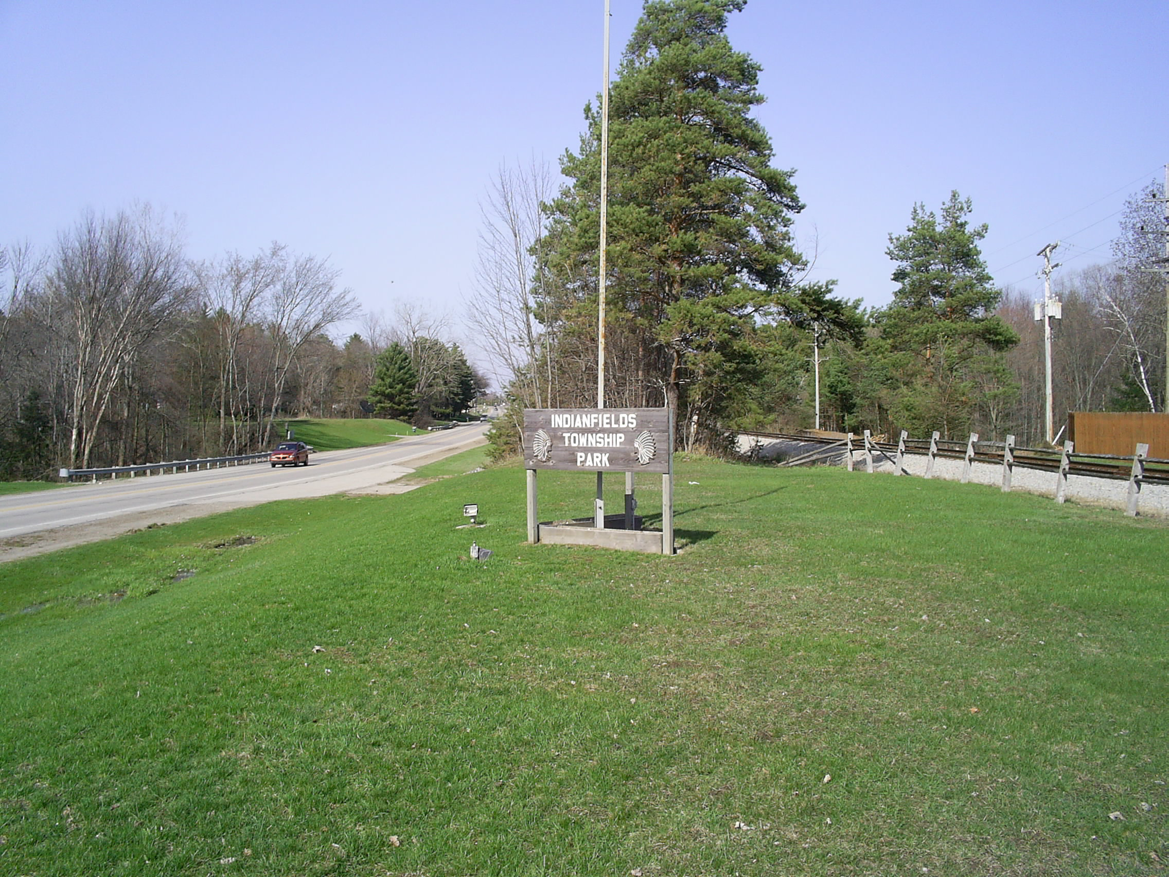 Indianfields park in Caro Michigan